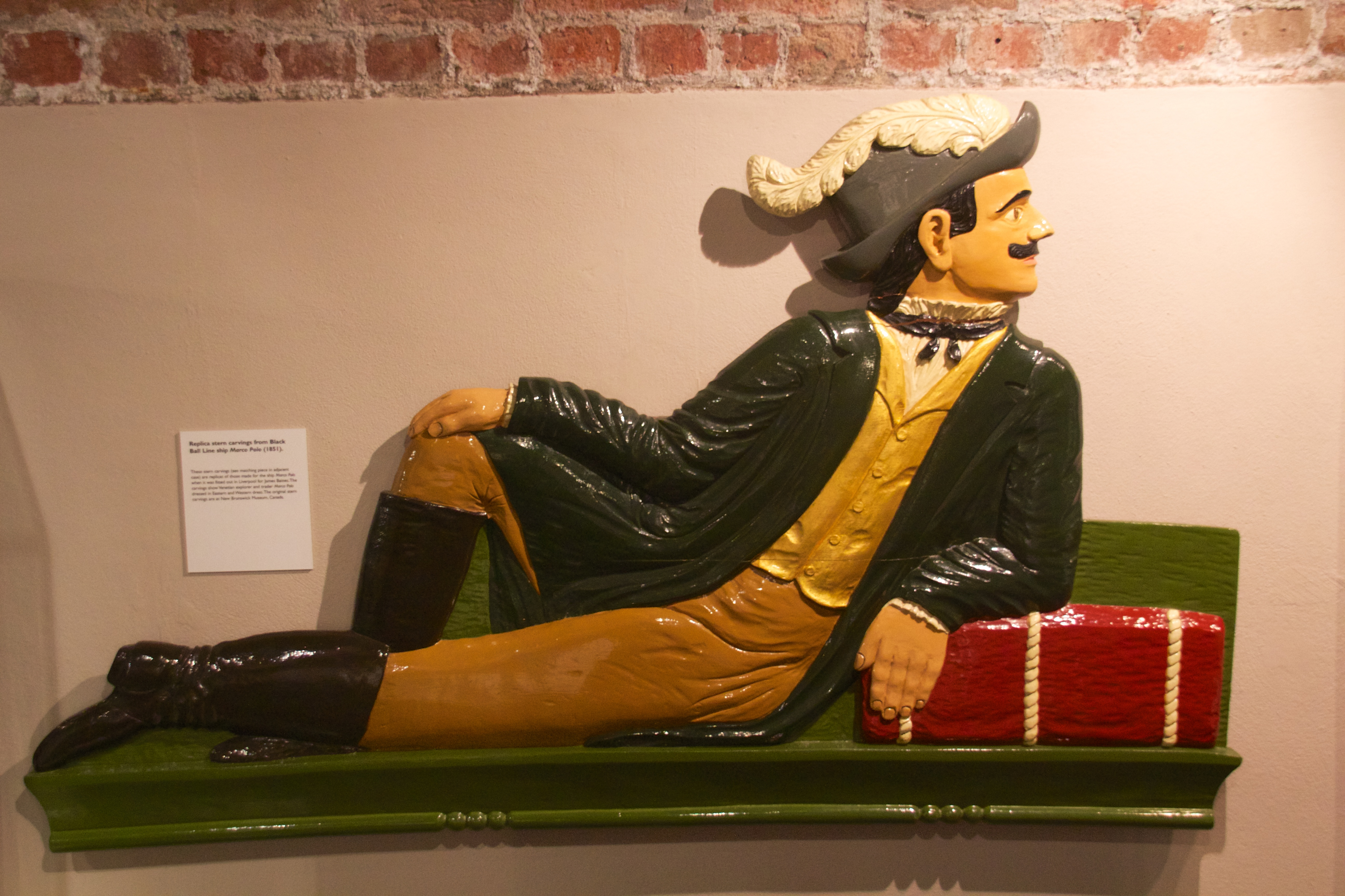 Replica stern carvings from Black Ball Line ship Marco Polo (1851). The originals are in New Brunswick Museum, Canada. On display at the Merseyside Maritime Museum.